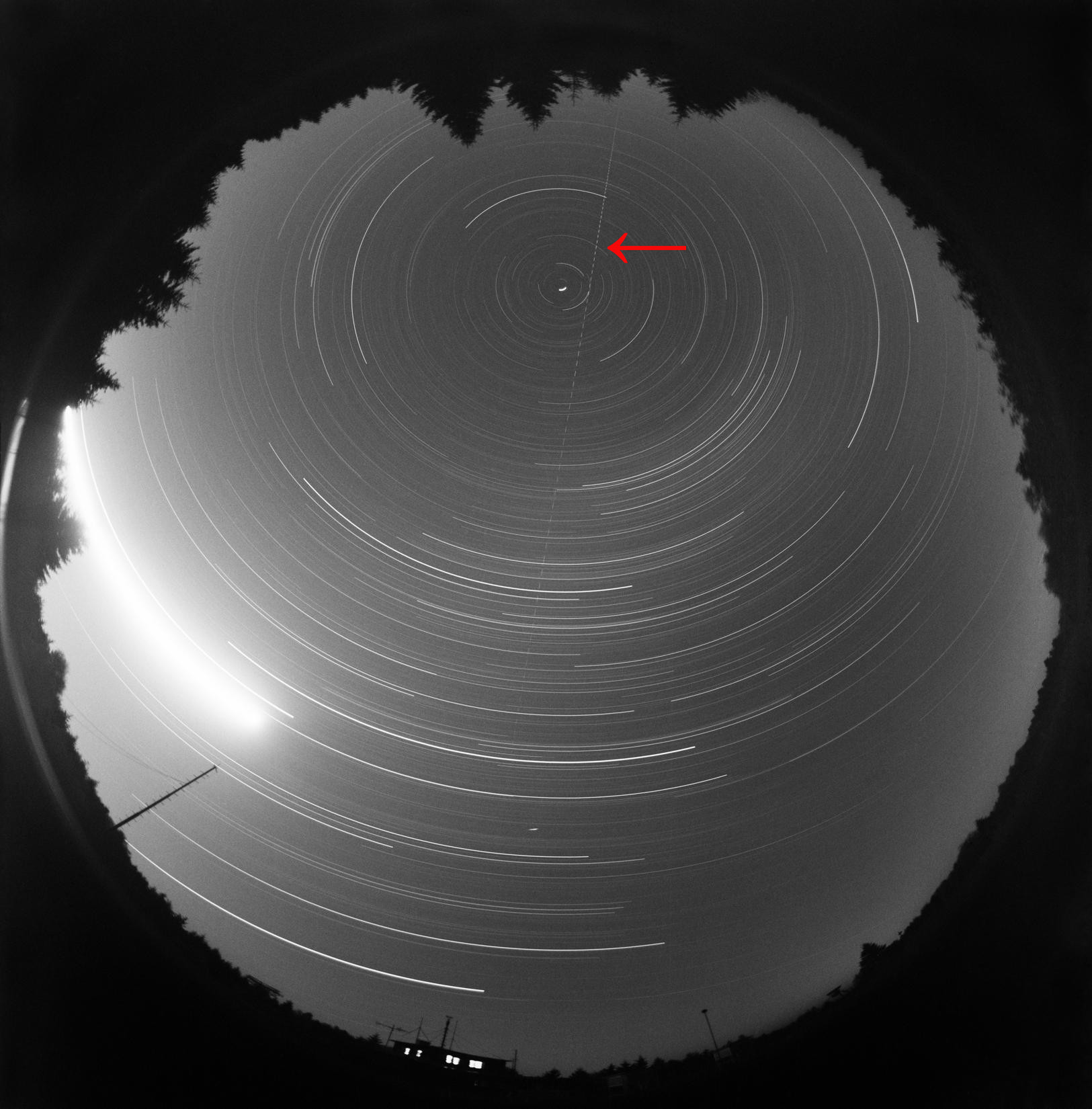 This is a scanned photograph of the bolide EN131090, originally captured on a glass photographic plate. The Earth-grazing meteoroid flew above Czechoslovakia and Poland on 13 October 1990 and left to space again. It was taken by an all-sky camera equipped with a fish-eye objective Zeiss Distagon 3.5/30mm located at the hydrometeorological station at Červená hora, Czechoslovakia (now in the Czech Republic). The bolide travels from the south to the north and its track is interrupted by a shutter rotating 12.5 times per second, which allows to determine its speed. The thick bright light track on the left is the Moon.